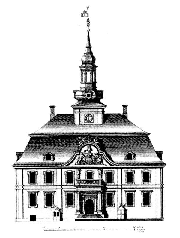 Copenhagen City Hall, engraving from L. Thura: Hafnia Hodernia, Tavle XXXIII (1748